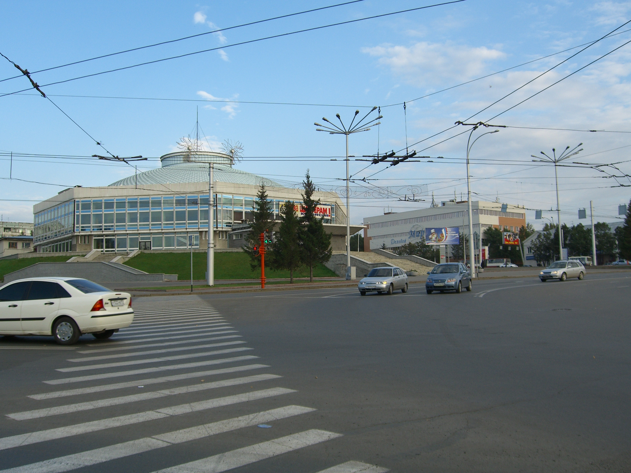 Kemerovo circus